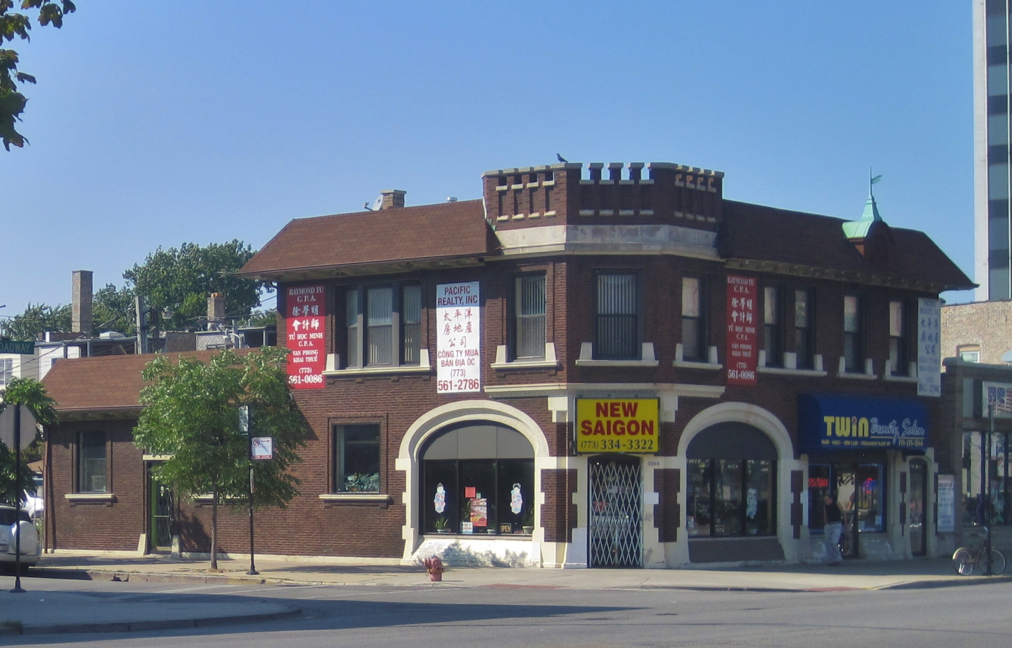 5000-2 North Broadway in the West Argyle Street Historic District in Chicago (1910).